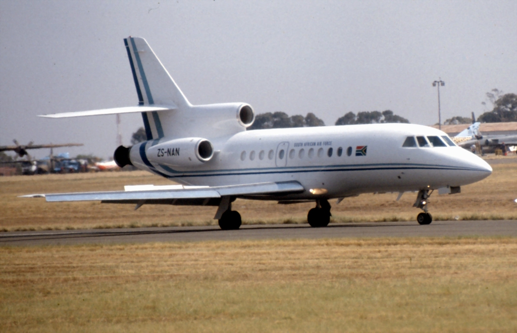 Falcon 900A ZS-NAN at AFB Waterkloof during the SAAF 75 airshow